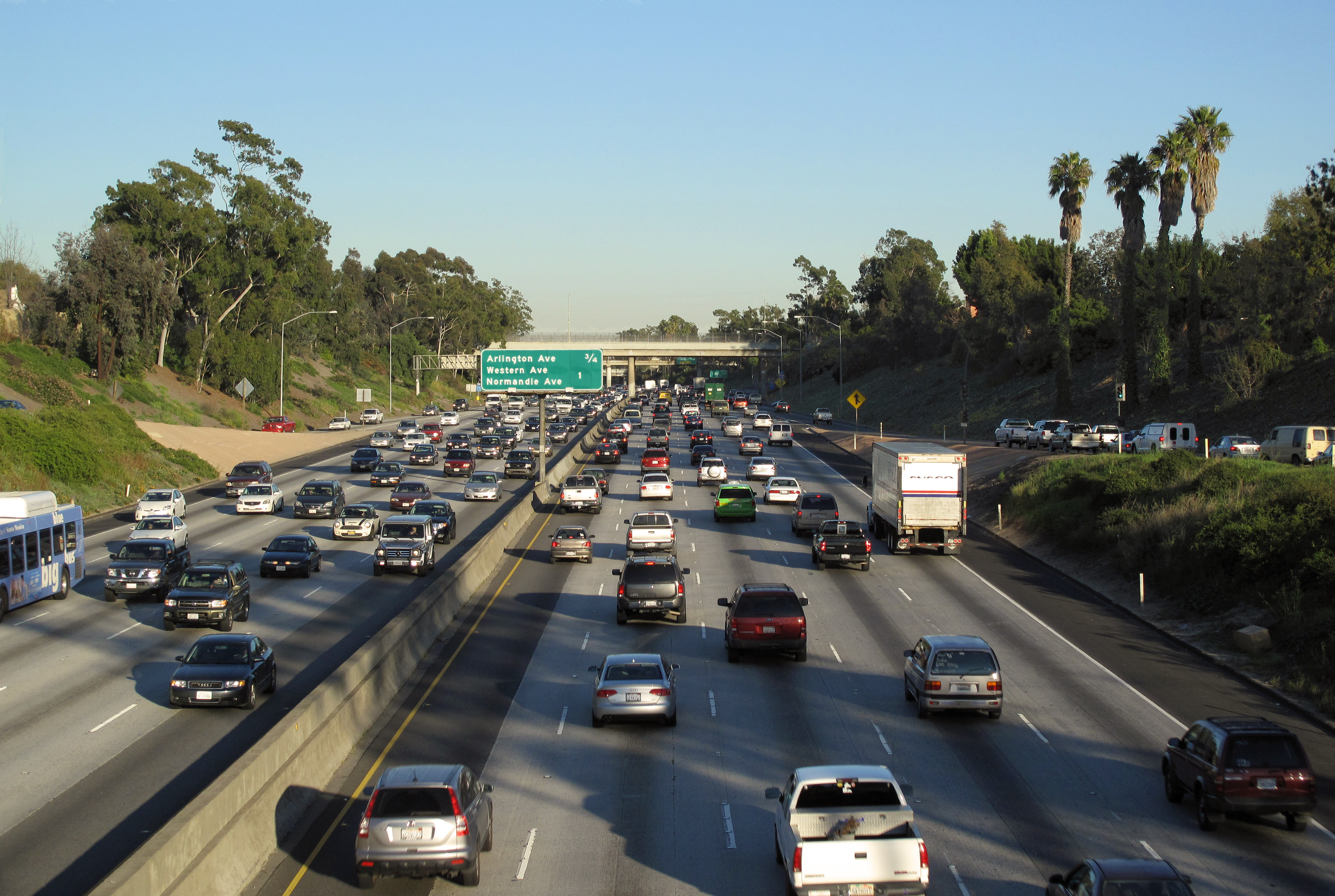 Afternoon early rush hour traffic on Interstate 10 in Los Angeles, California. The photograph looks eastward from the overpass on Crenshaw Boulevard, in the Arlington Heights neighborhood. The blue bus on the left side is a Santa Monica city bus, which picked up passengers in downtown Los Angeles, and tavels by the highway for most of its route, which ends in Santa Monica.